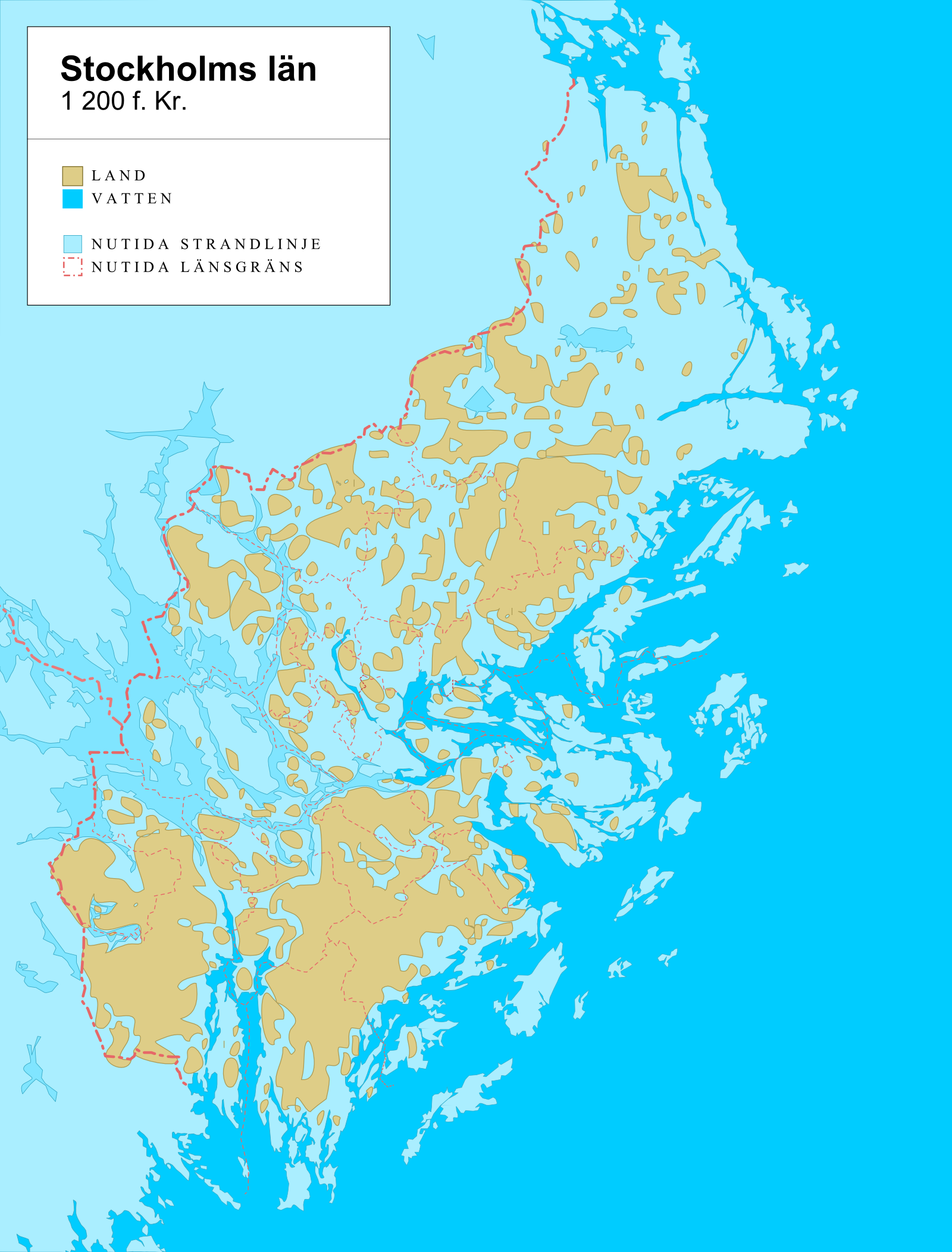 The Stockholm area, around 1200 years BC (3200 BP). The map shows post-glacial rebound and shoreline displacement in comparison with present-day Stockholm county. The extent of land at the time (yellow) was smaller than today, with water (blue tones) covering areas that are above the shoreline today. Present-day shorelines, county and municipality borders shown for comparison.